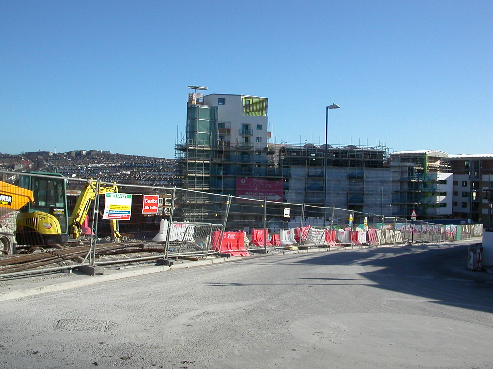 New England Quarter - looking southeast down Stroudley Road, with what will be Block G in the foreground, and the already-developed buildings of Blocks E and F in the centre. Photographed on 3rd February 2007.